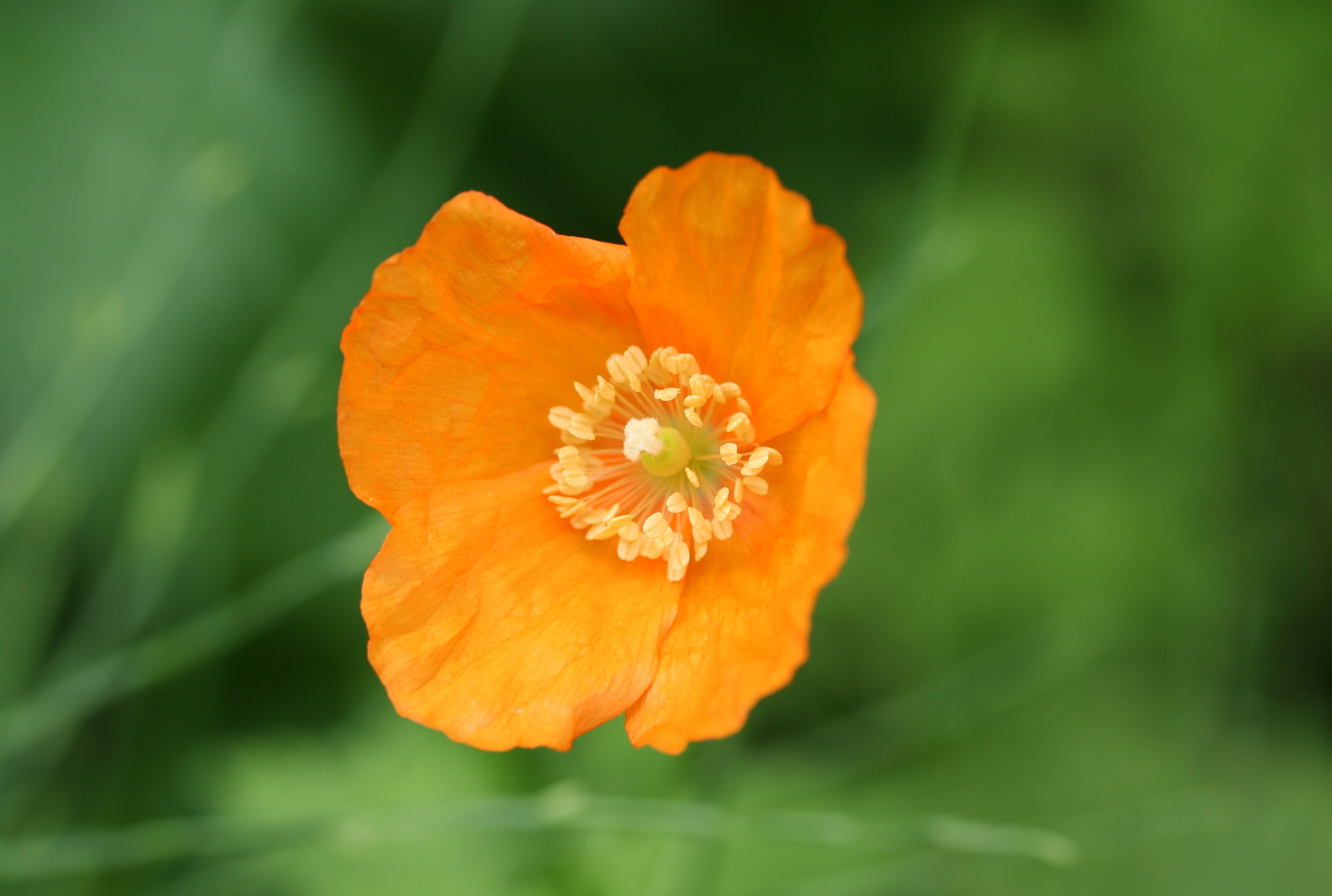 Meconopsis_cambrica 28 May 2006 IJmuiden, the Netherlands